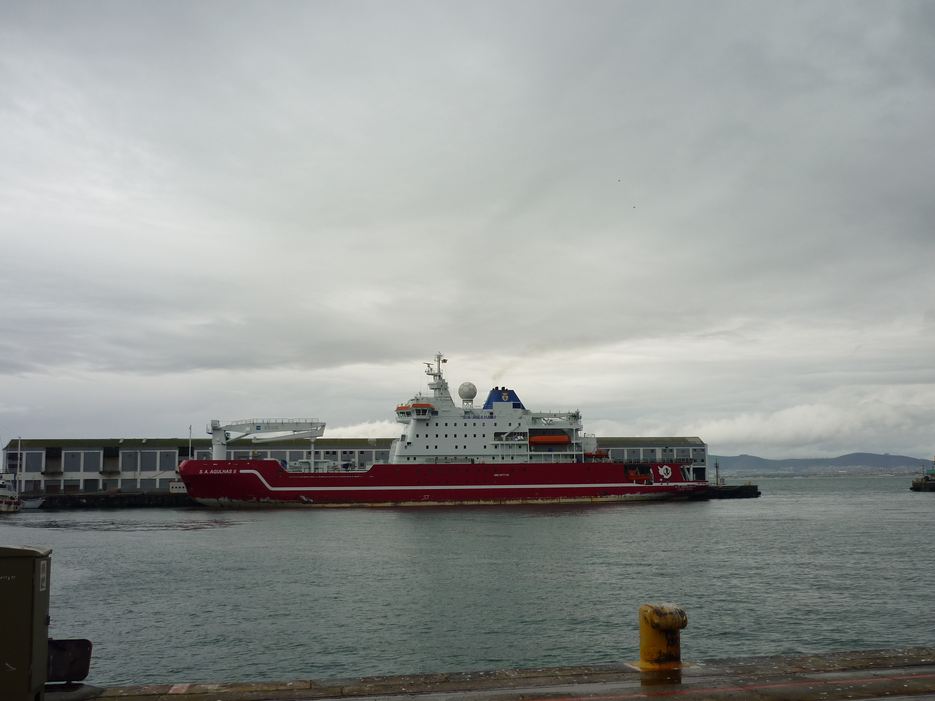 SA Agulhas II in Cape Town Harbour